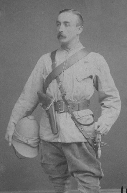 Gilbert Elliot-Murray-Kynynmound, 4th Earl of Minto (1845-1914)